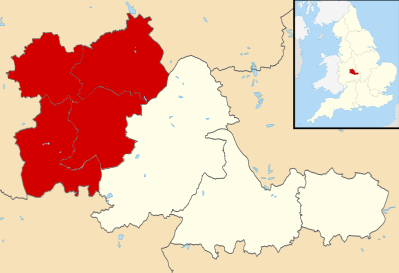 Map of the West Midlands, UK with the Black Country highlighted. Equirectangular map projection on WGS 84 datum, with N/S stretched 160%